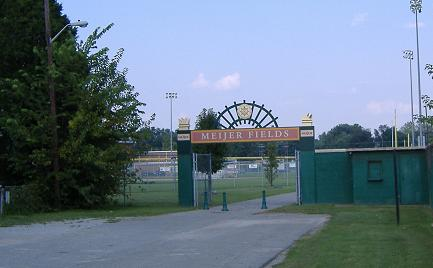 The Meijer Fields sports complex, in Jeffersonville.